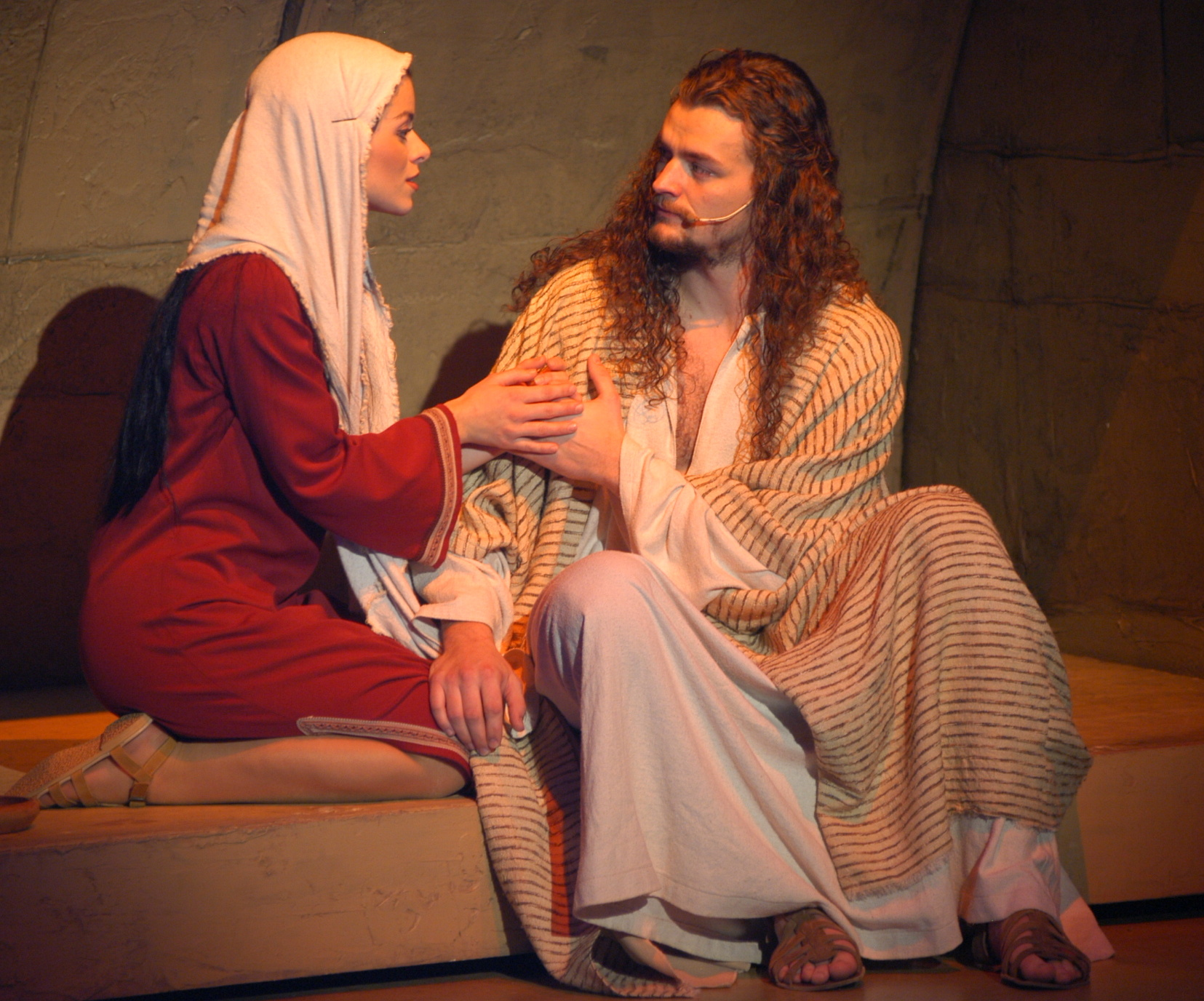 Czech musical of Městské divadlo Brno Jesus Christ Superstar